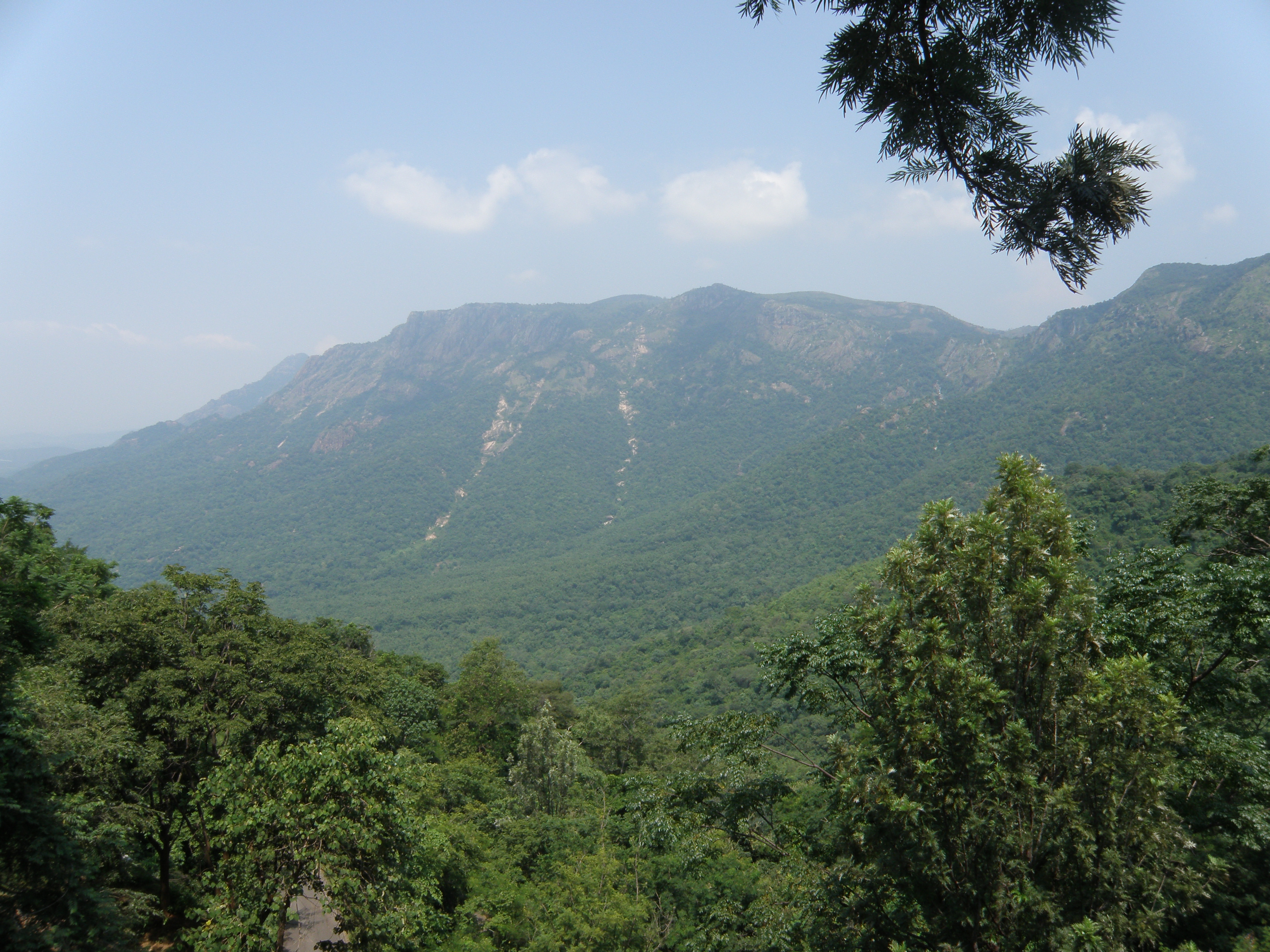 Group of Kolli Hills